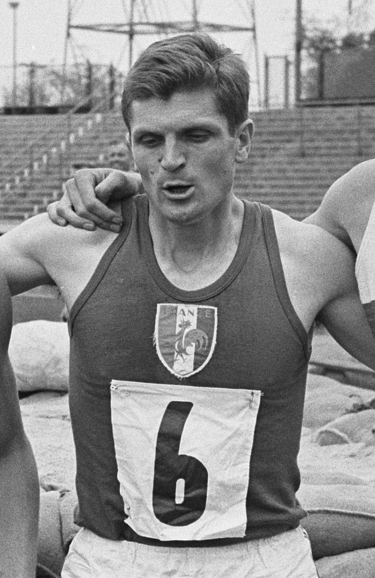 Zes Landen Atletiek (Six Countries Athletics) in Enschede. 100 meters: From left to right. Sergio Ottolina (Italy), Jocelyn Delecour (France) and Peter Gamper (Germany)